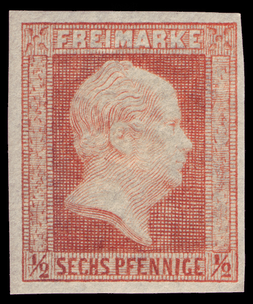 Definitive stamp: Friedrich Wilhelm IV of Prussia Graphics by Ulbricht Ausgabepreis: 1/2 Silbergroschen = 6 Pfennige First Day of Issue / Erstausgabetag: 15. November 1850 Michel-Katalog-Nr: 1 (Preußen)